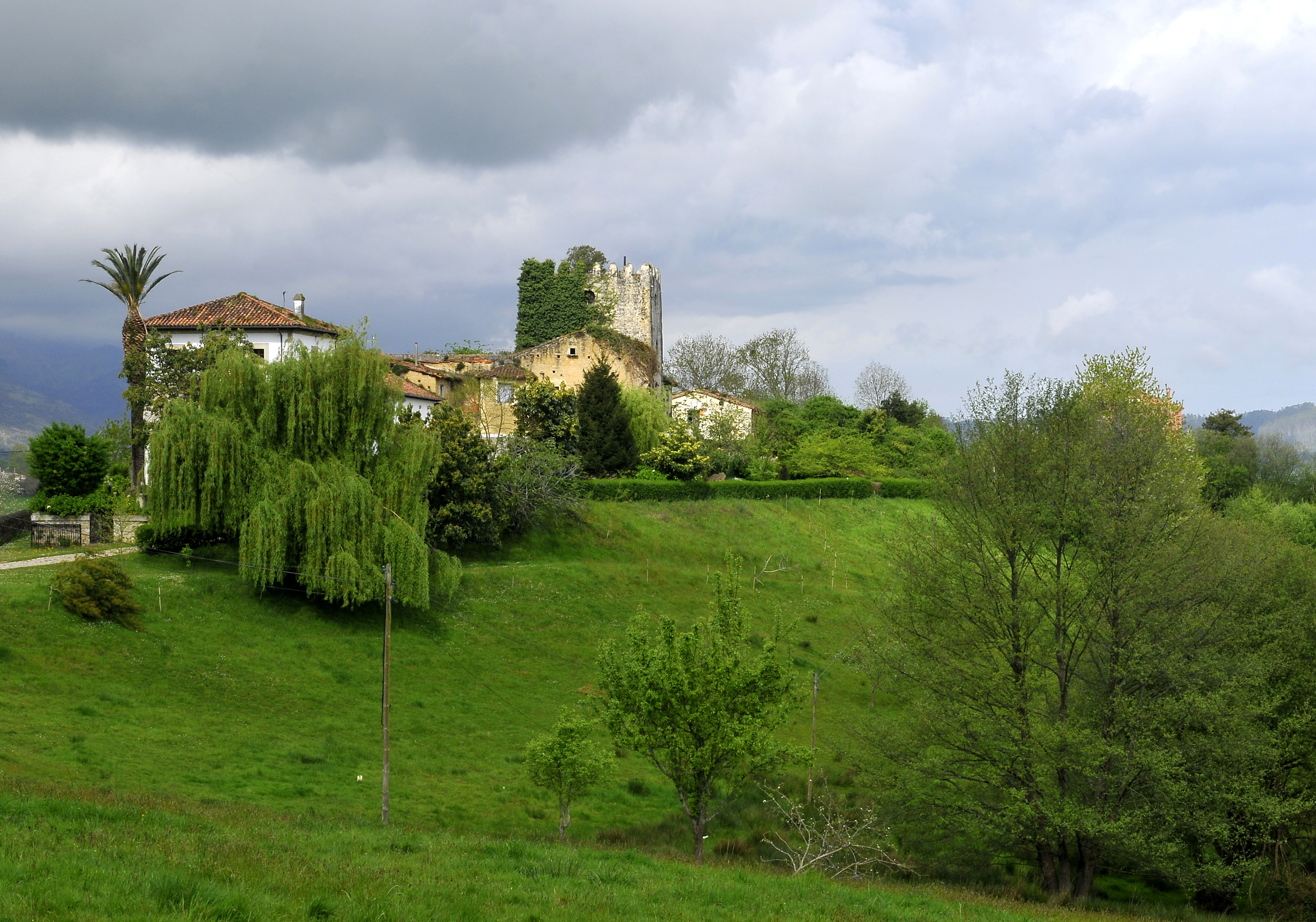 The village and its surroundings. Noriega, Ribadedeva, Asturias, Spain